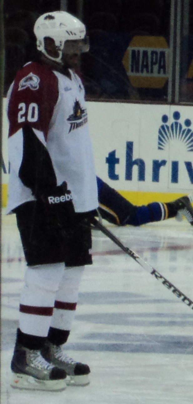 Hockey player during warm ups